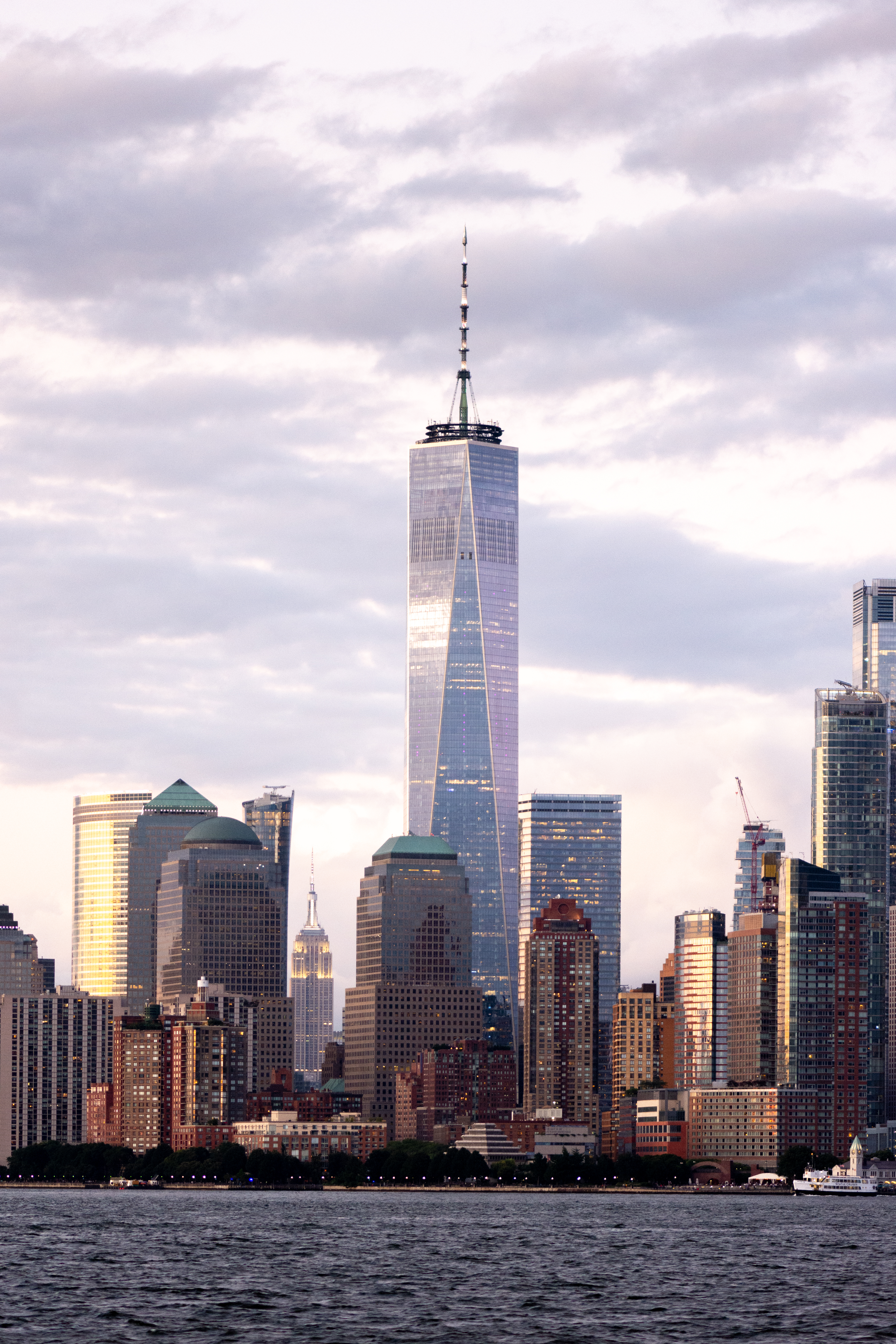 One World Trade Center in New York City is the tallest building in North America.